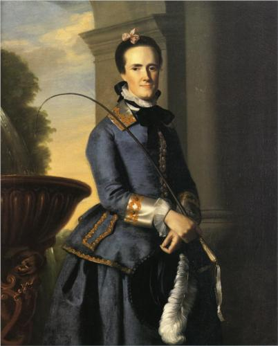 Portrait of Mrs. Epes Sargent II (Catherine Osborne Sargent) in a blue riding habit